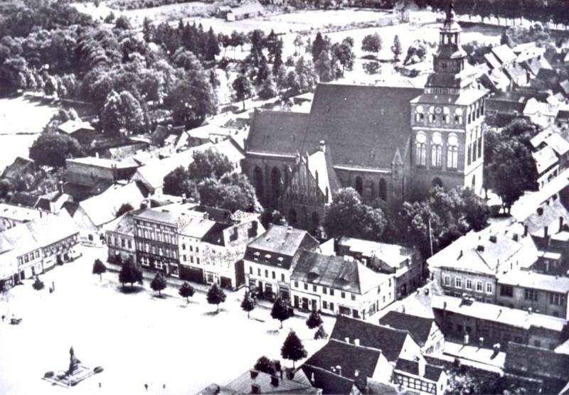 View on StMary's church in Greifenberg/Pommern (Germany) - today Gryfice (Poland)